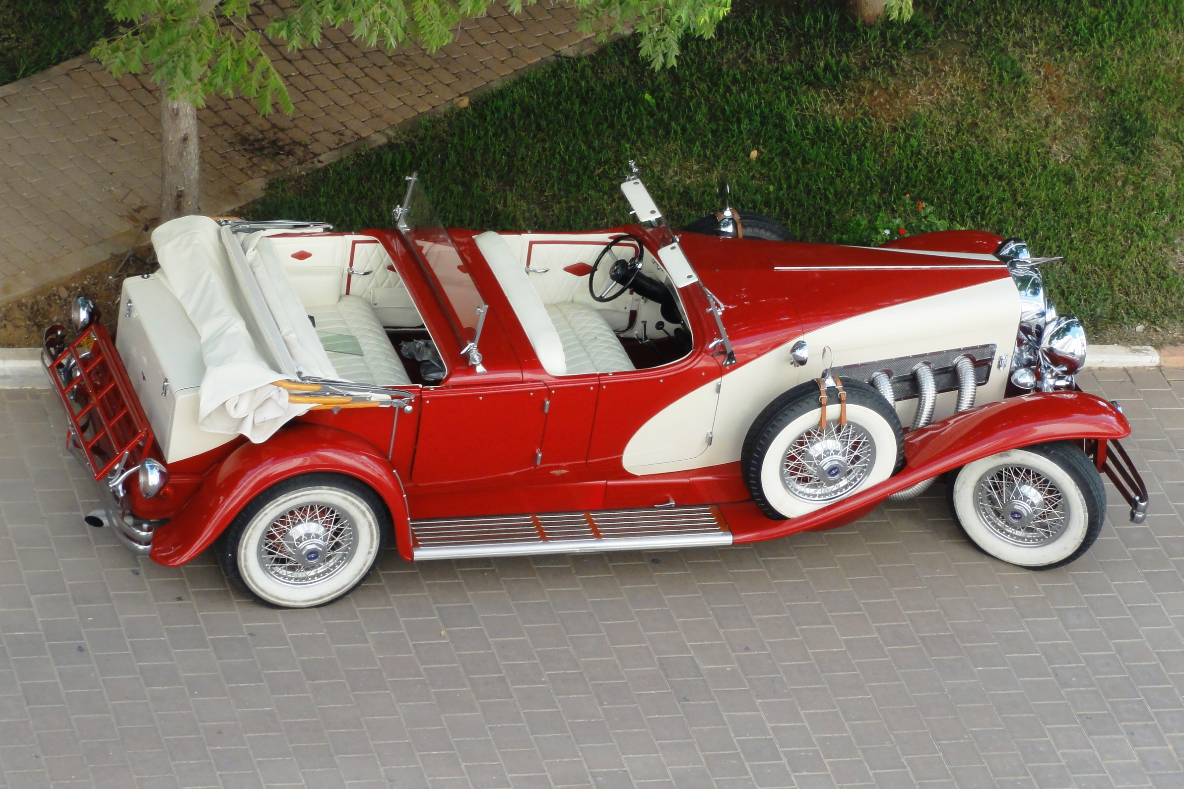 Antique car in Tel Aviv